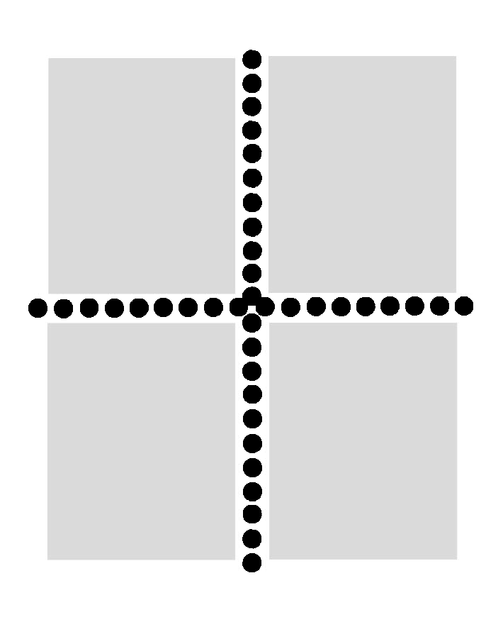 Line perforation: 2nd step.